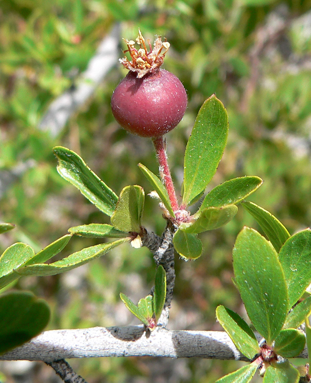 Peraphyllum ramosissimum on slope above road, about 1.5 km west of Willow Spring, Red Rock Canyon, Spring Mountains, southern Nevada (elev. about 1600 m)